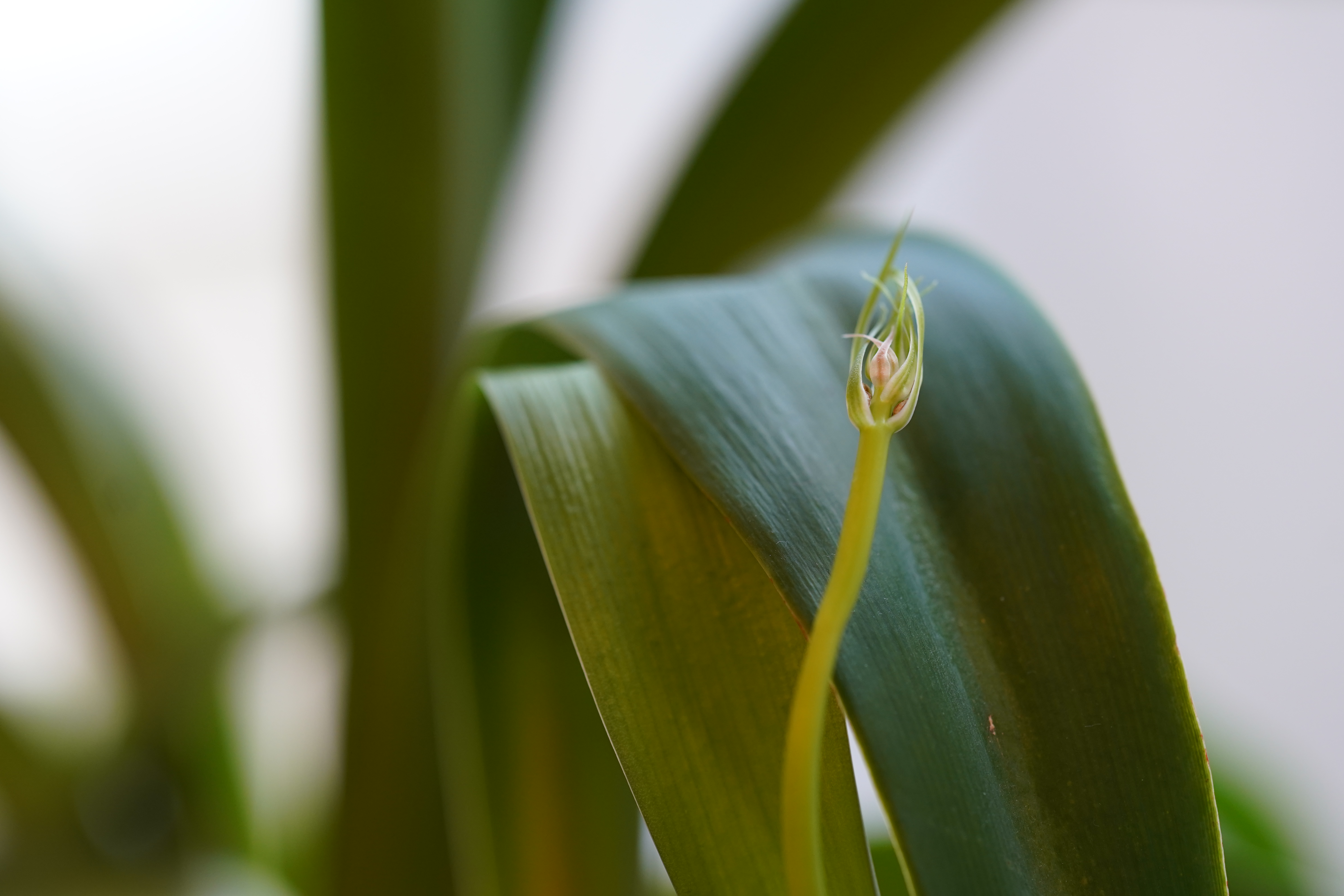 Albuca bracteata flower